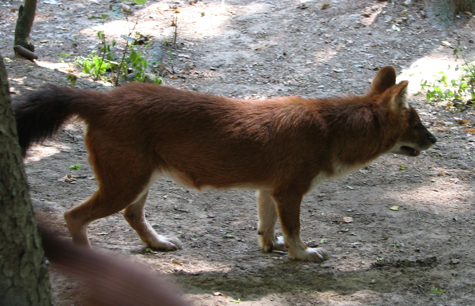 Cuon alpinus in ZOO Olomouc, Czech Republic